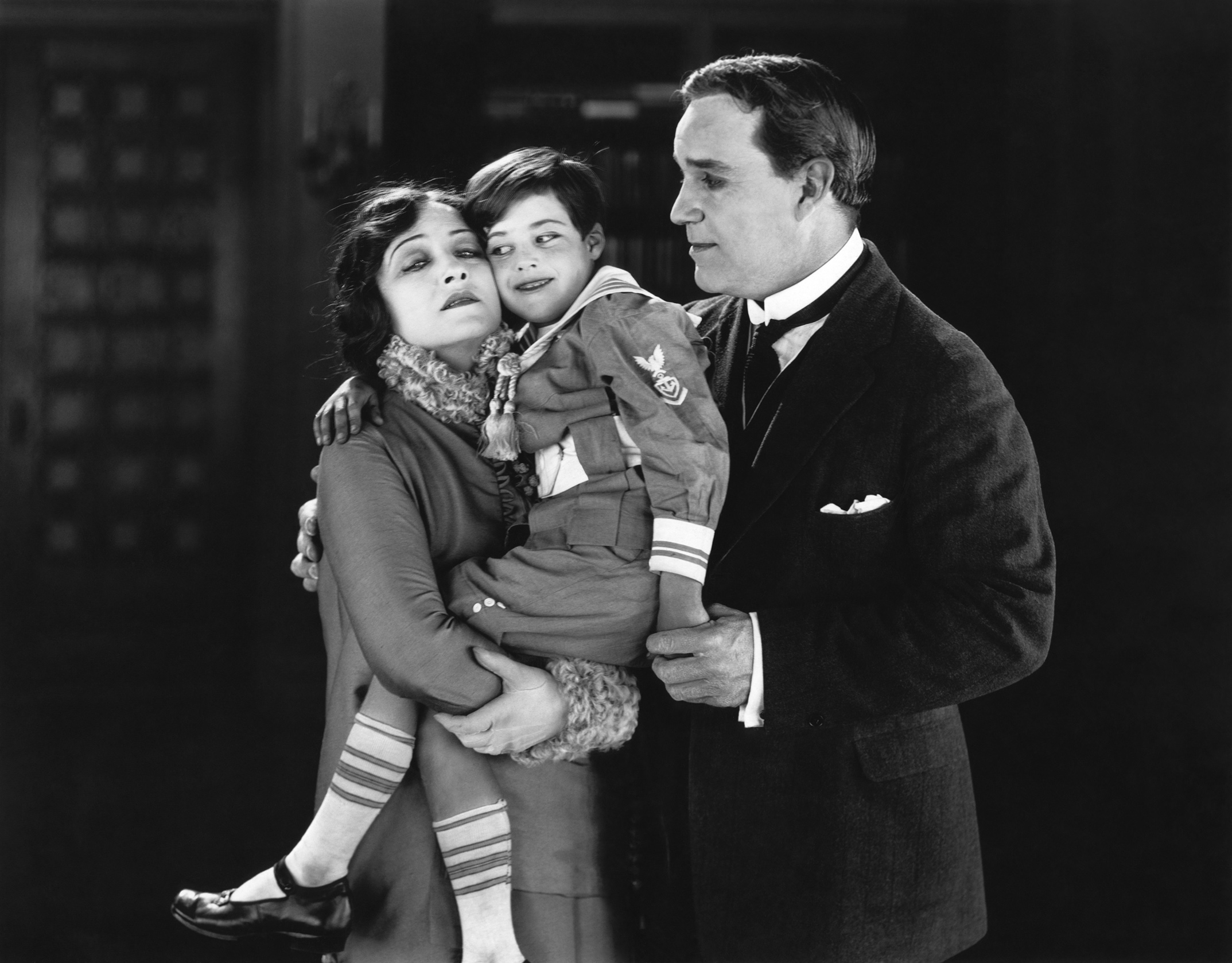 Scene from the American film Bonds of Love (1919) featuring Pauline Frederick (far left), child actor Frankie Lee, and Percy Standing.